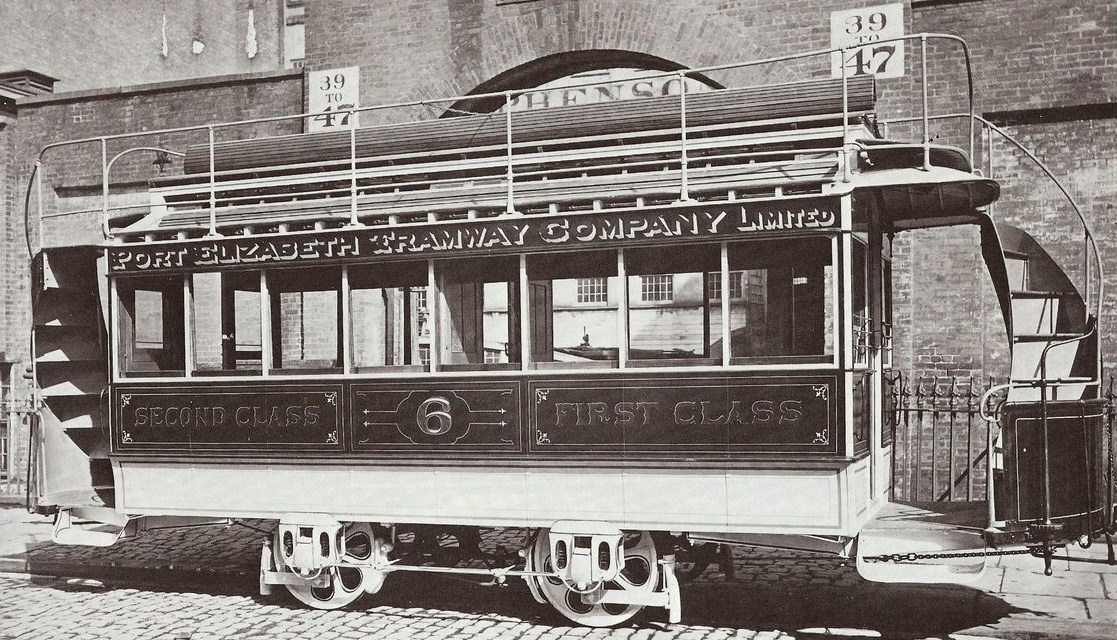 A builder's photo of Port Elizabeth horse tram (streetcar) number 6. This tram was the first to be constructed after Port Elizabeth's original batch of five US-built horse trams, which had gone into service in 1881. The horse trams were replaced by Brill electric cars in 1897.